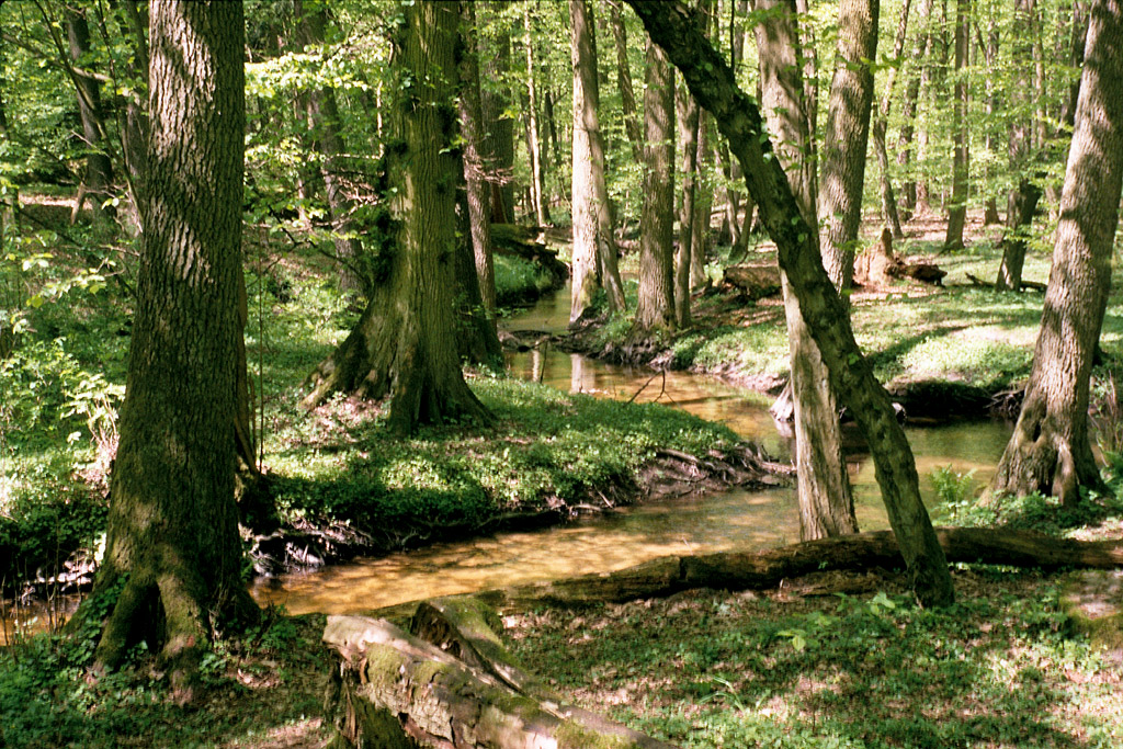 Forest in "Las Piwnicki" nature reserve near Toruń, Poland